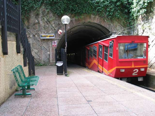 Zecca - Righi funicolar at Carbonara station